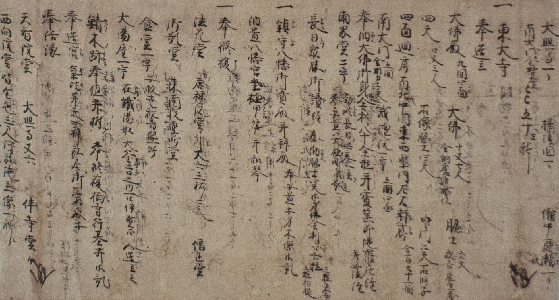 Benevolent Deeds of Namu-Amidabutsu (Chōgen's Memoir) (南無阿弥陀仏作善集 Namu-Amidabutsu Sazenshū); Historiographical Institute The University of Tokyo